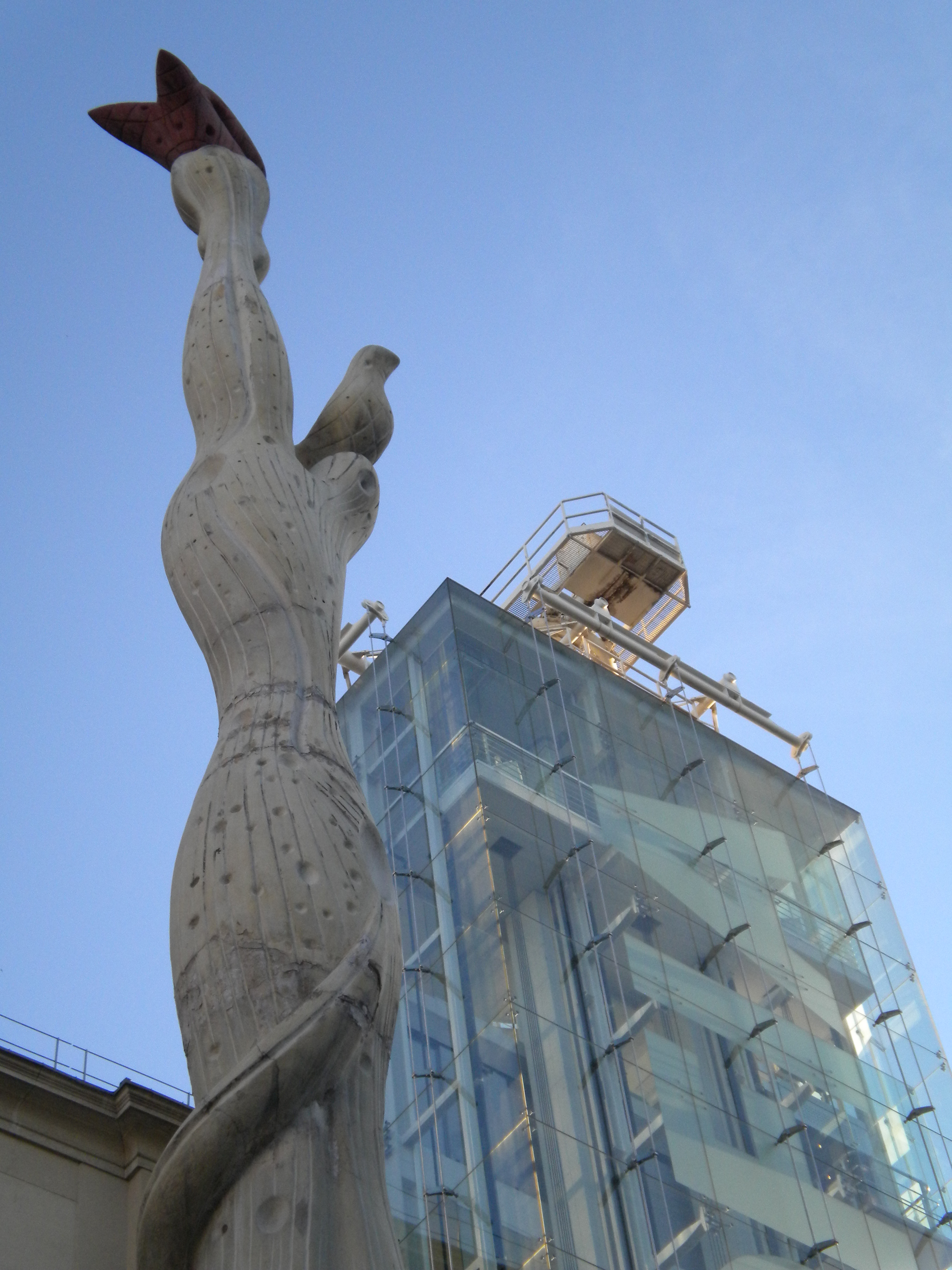 Museo Reina Sofía front photo close up Queen Sofia Museum 2011 Junemostrando el monumento moderno, la parte superior de la estructura elivator azulejos en el lado de la construcción original y los detalles de la piedra labrada con detalles expectional